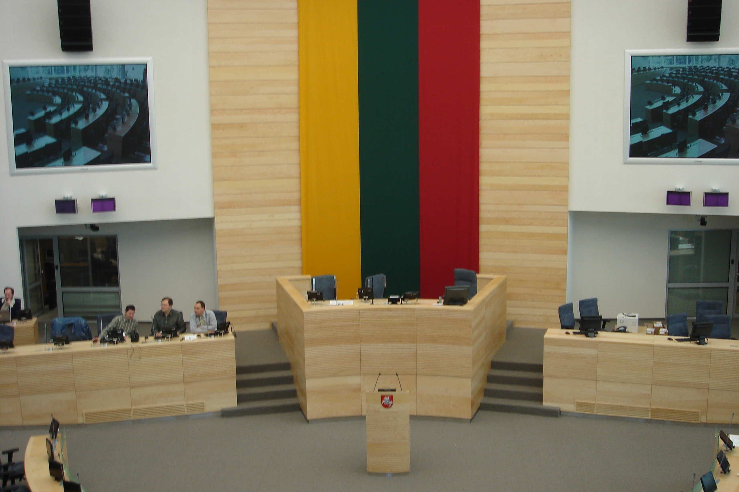 New Lithuanian Seimas Parliament Hall, opened in 2007